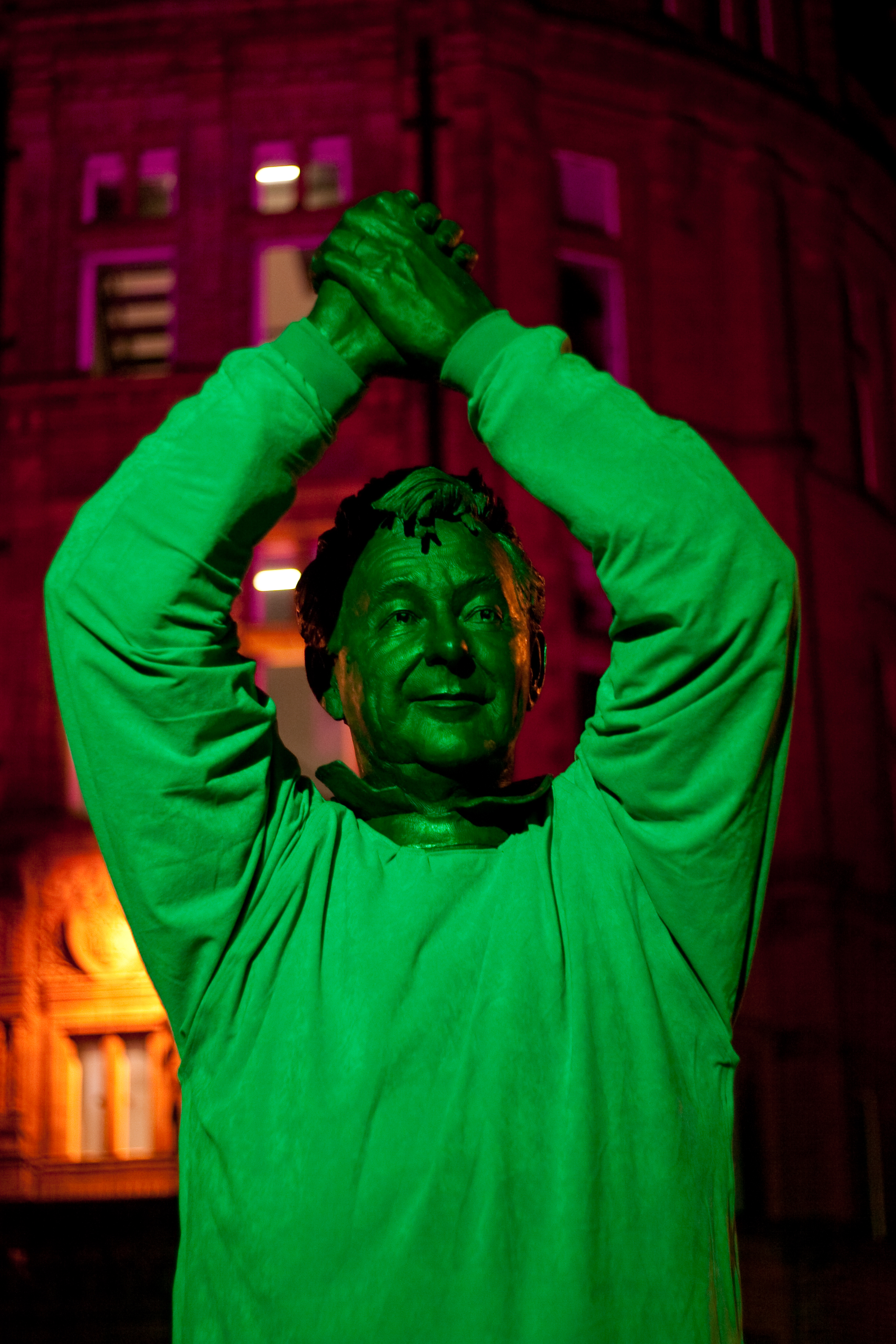 Cloughie - Nottingham Light Night 2009